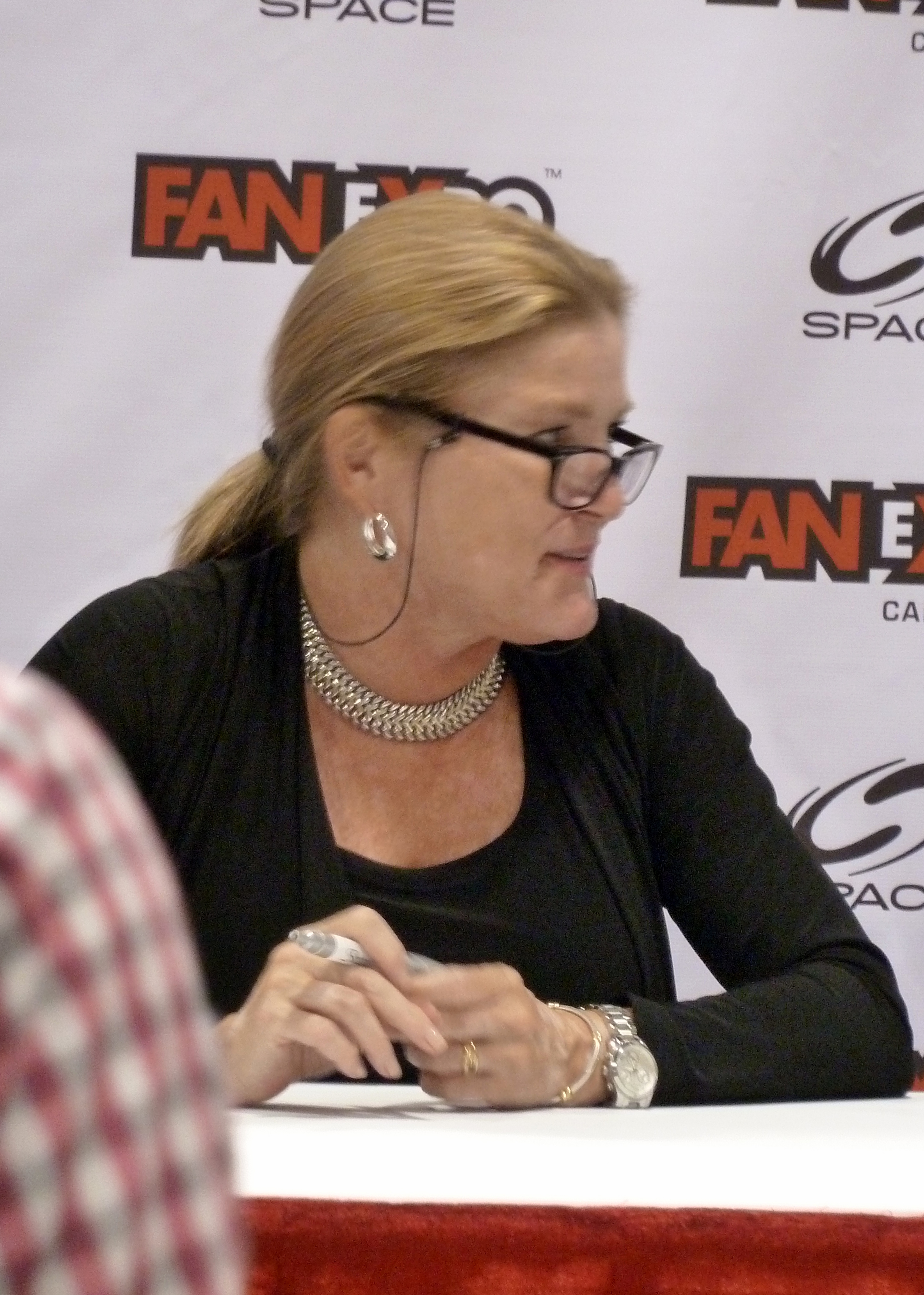 Fan Expo Canada in Toronto in 2012.